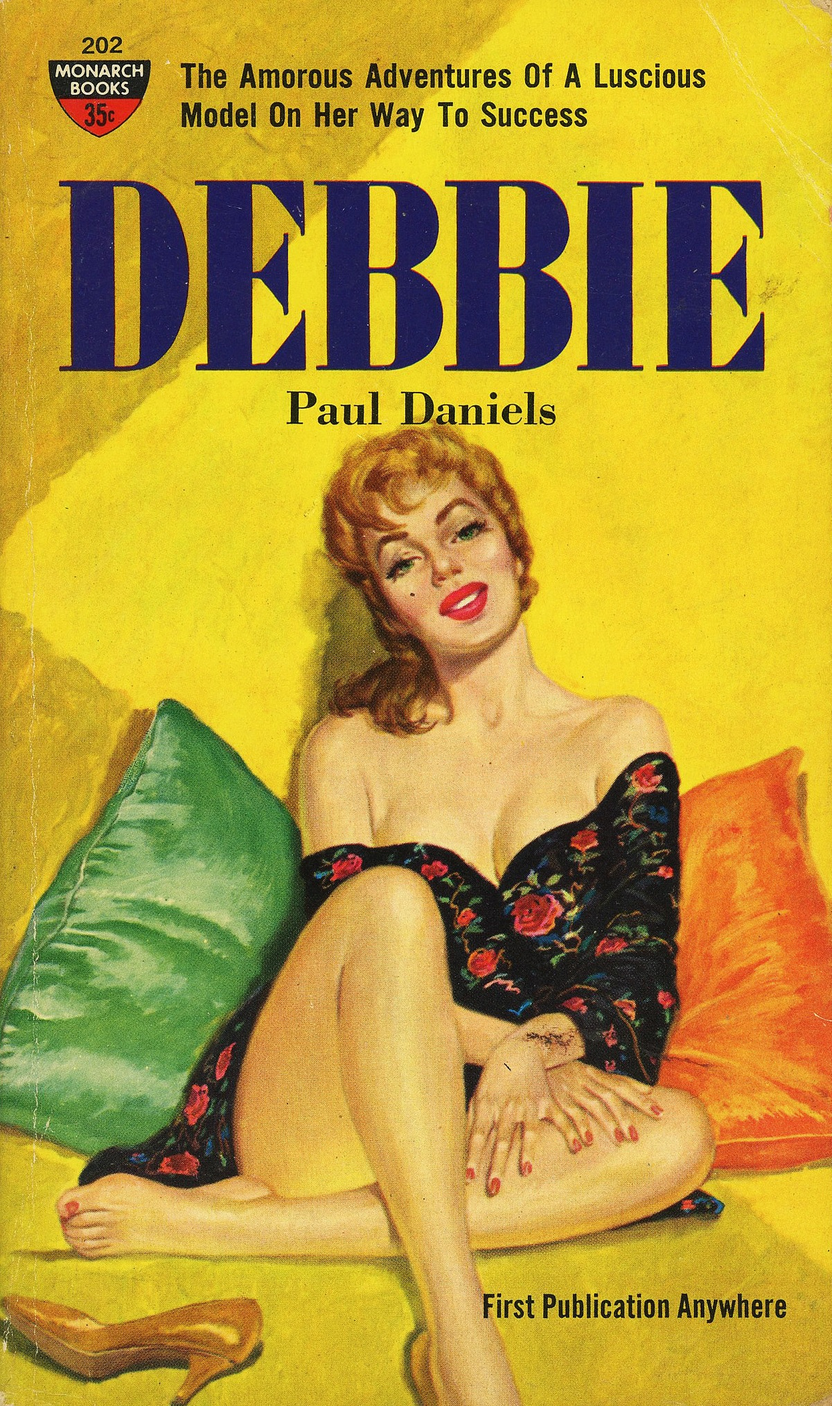 Cover of "Debbie" by Paul Daniels. Illustration by Rafael DeSoto.